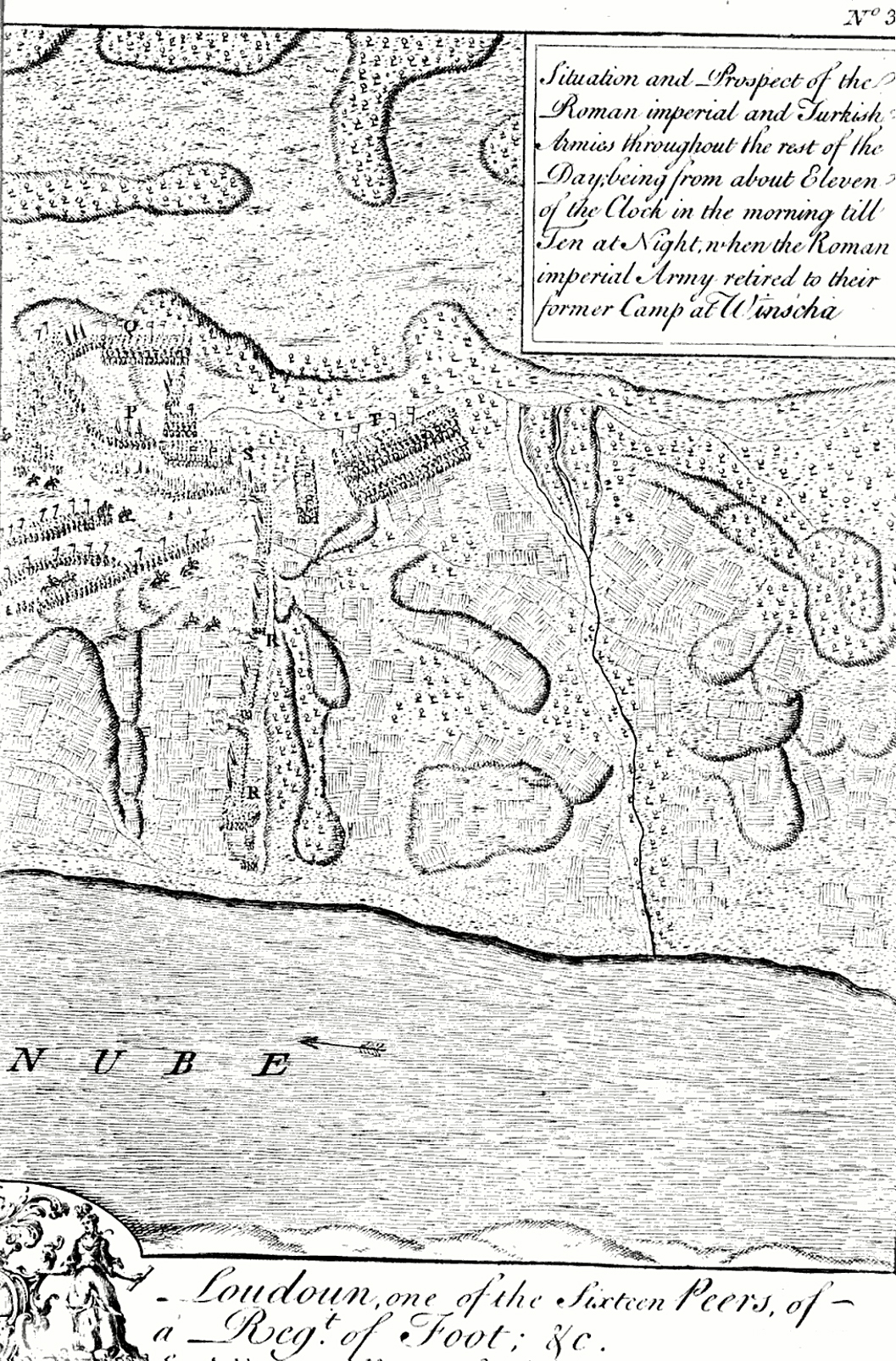 Map of battle of Grocka, fought in 22 july 1739, describing the situation between Austrian Imperial army and the Ottoman forces from about 11 o'clock till 10 in the evening. Map was made by John Lindsay, 20th earl of Crawford, or illustrated after his description and appeared in his memoirs published in 1753 by his servant Henry Köpp. Description: Situation and Prospect of the Roman imperial and Turkish Armies throughout the rest of the Day; being from about Eleven of the Clock in the Morning till Ten at Night, When the Roman imperial Army retired to their former camp at Winscha".